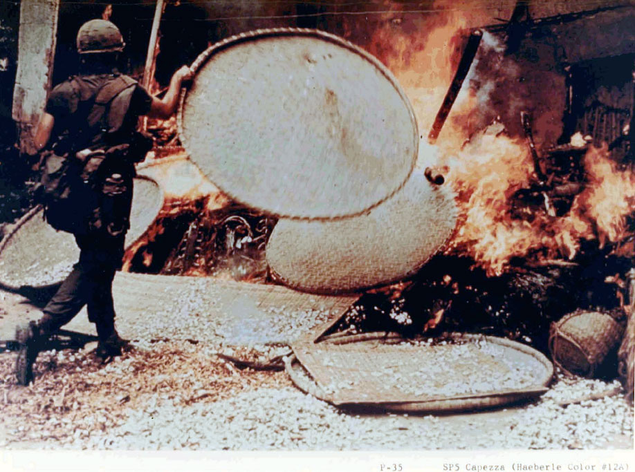 Specialist Capezza. My Lai, Vietnam. March 16, 1968. PFC Capezza shown setting a fire during the My Lai massacre, in which between 300 and 500 Vietnamese civilians were killed. Photo by Ronald Haberle